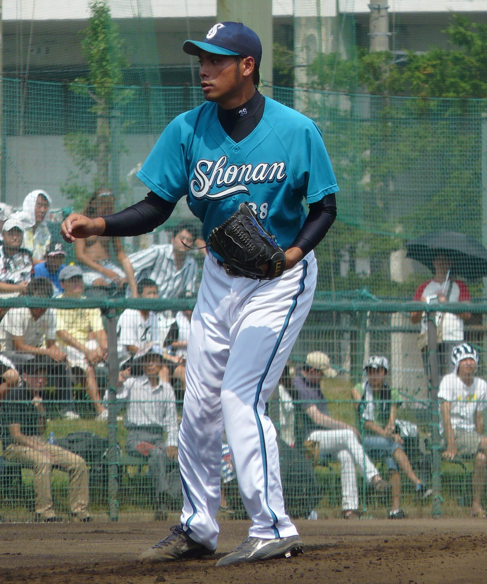 Kentaro Kuwahara, pitcher of the Shonan Searex, at Lotte Urawa Baseball Ground.